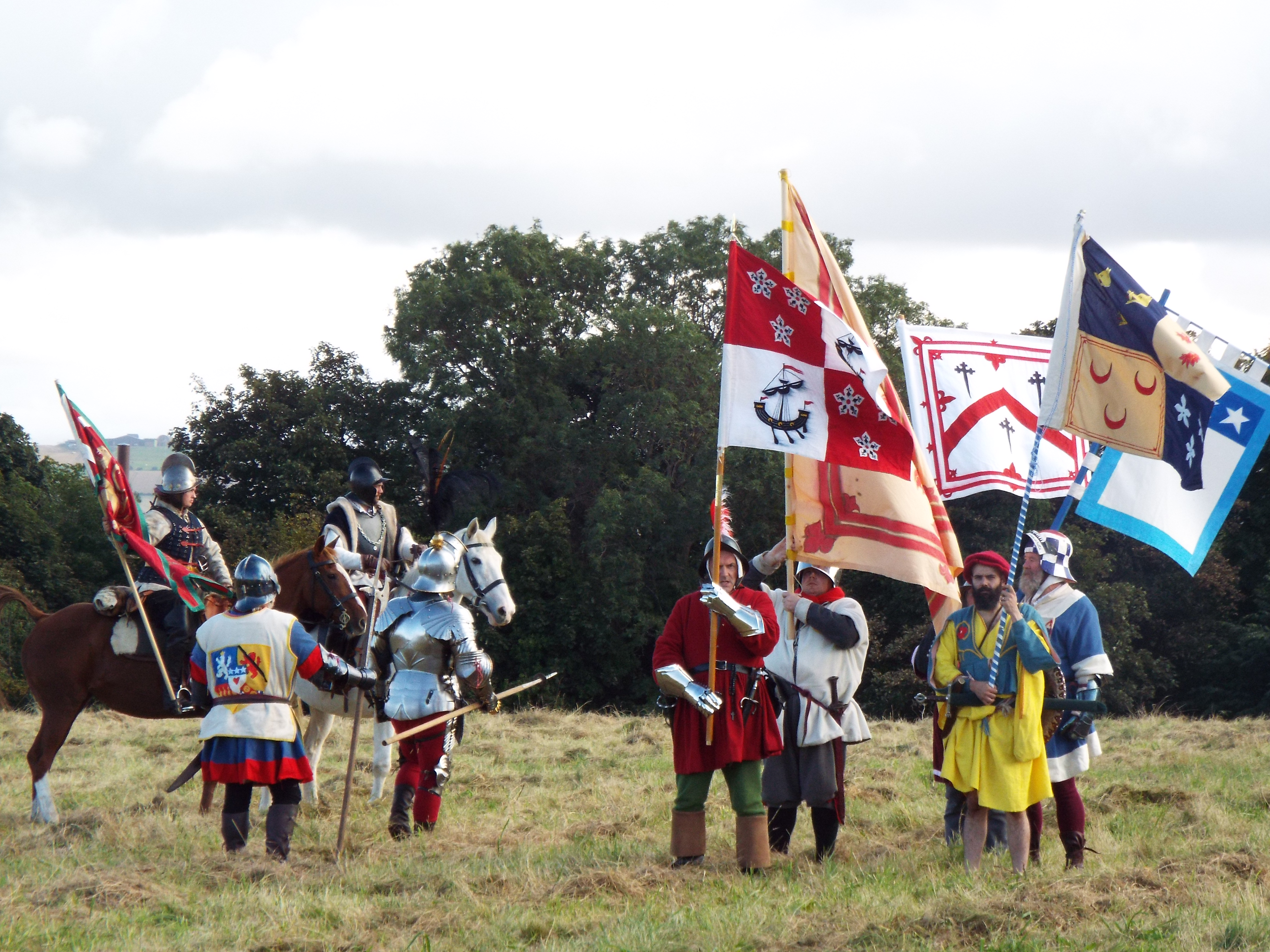 Re-enactors bringing the Battle of Pinkie to life in 2017. Shown is the Earl of Arran and a colour party bearing banners of some of the Scottish noble houses represented on the field, including Hamilton, Douglas, Casillis and Huntly.